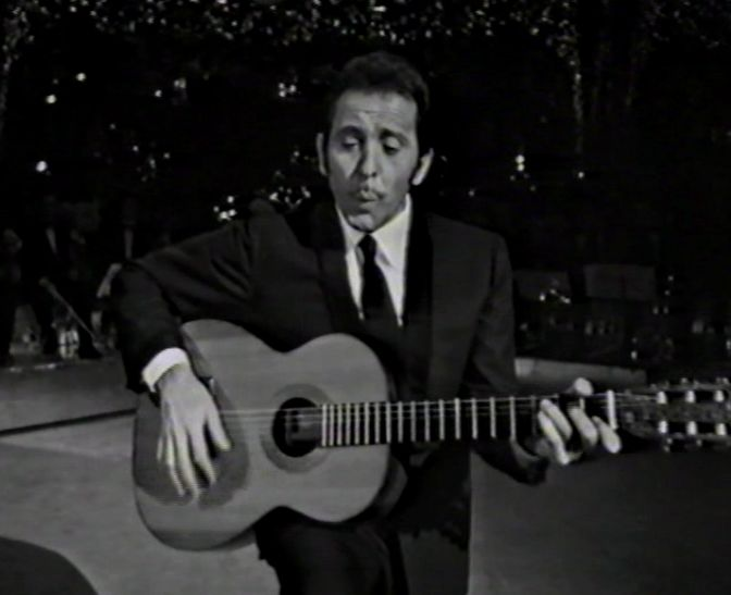 Modugno in TV